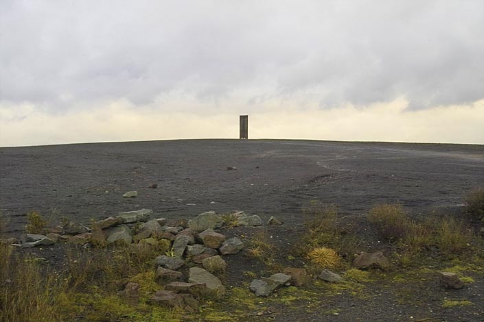 "Bramme" by artist Richard Serra on the Schurenbach-Halde in Essen, Germany. Note This image of the structure falls under the Freedom of panorama for Germany